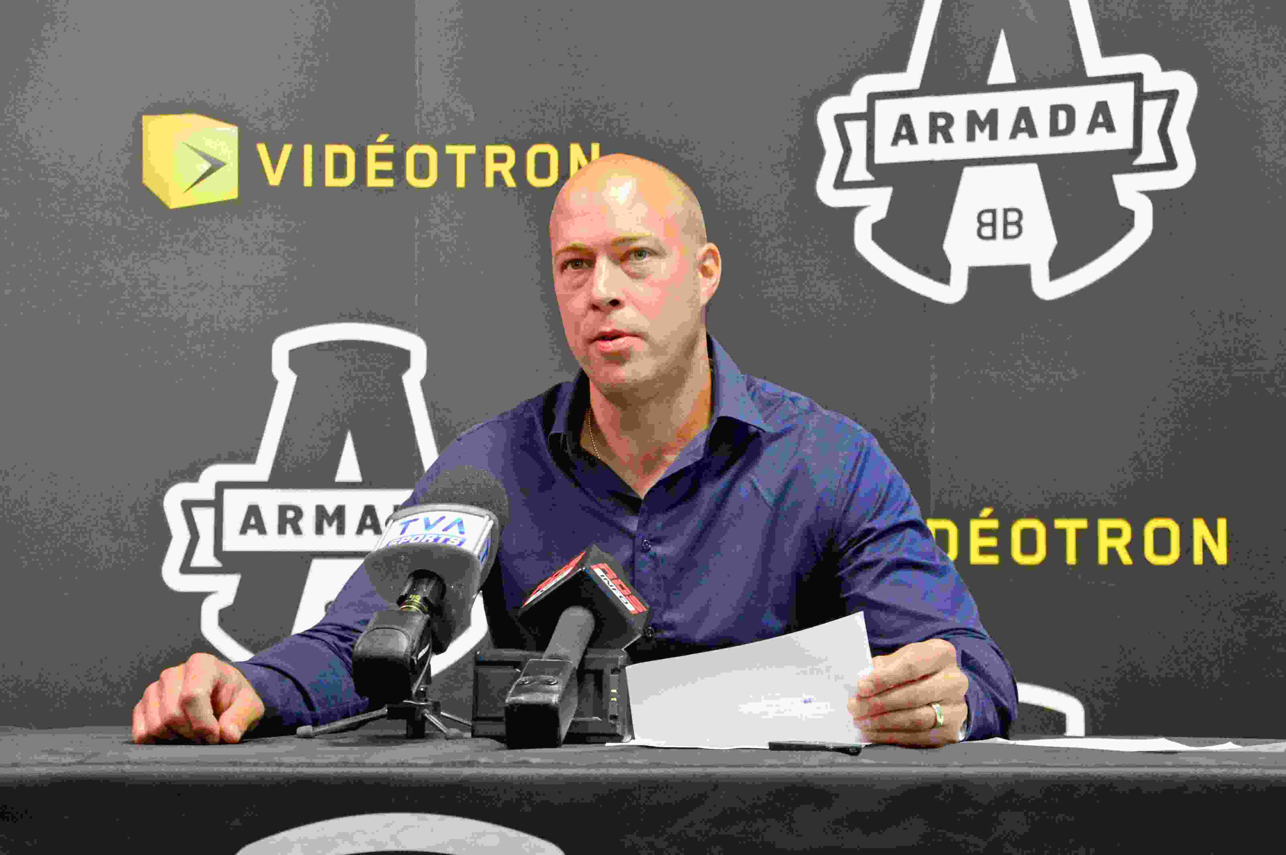 Pro goaltender Jean-Sébastien Giguère announces his retirement from the NHL at the Centre d’Excellence Sports Rousseau in Blainville on Aug. 21, 2014.